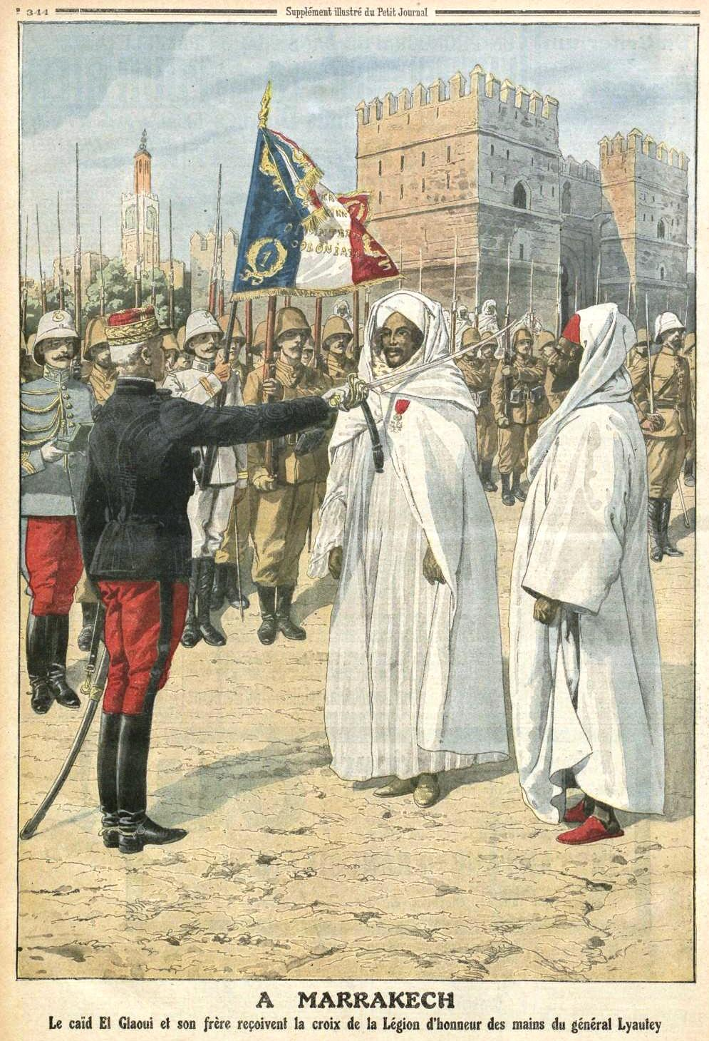 "À Marrakech, le caïd El Glaoui et son frère reçoivent la croix de la Légion d'honneur des mains du général Lyautey ("In Marrakesh, the qaid Madani El Glaoui (al-Glawi) and his brother Thami El Glaoui receive the cross of the Legion of Honour from General Lyautey"), illustration published in Le Petit Journal, Paris, No.1145, 27 October 1912